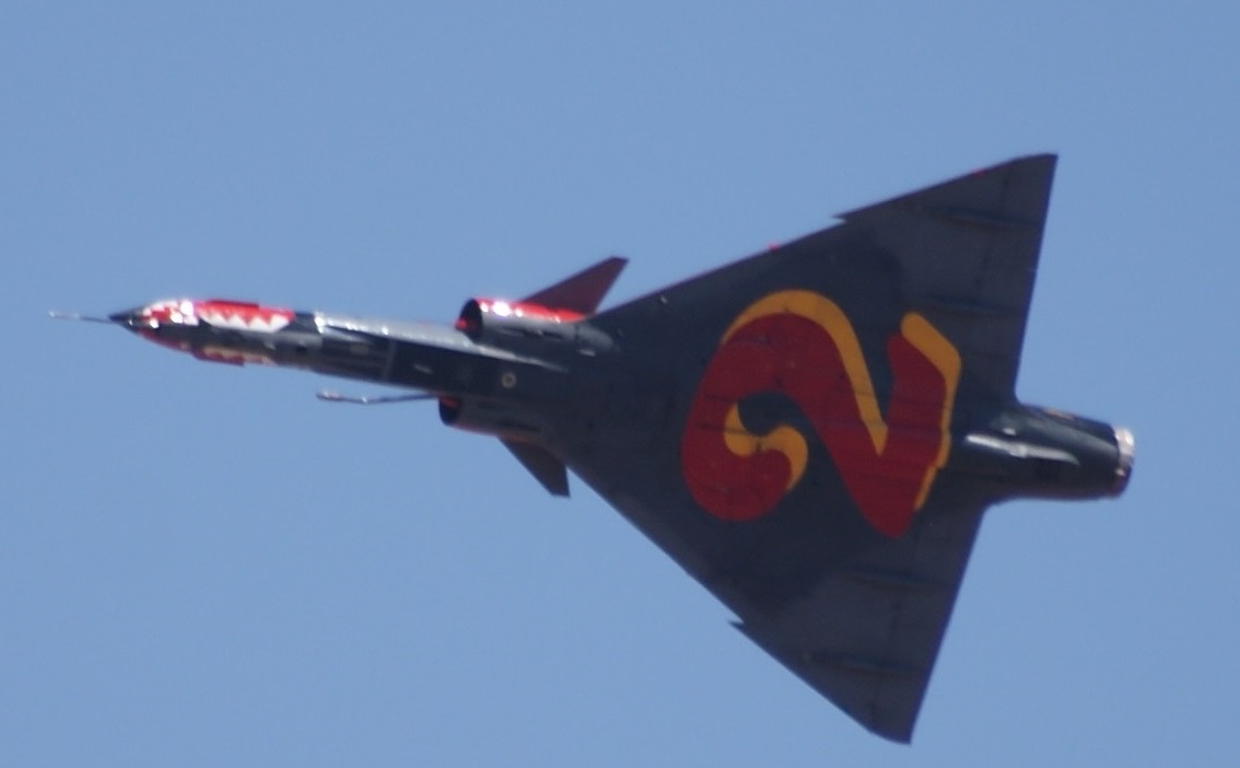 Cheetah D fighter with 2 Squadron decals